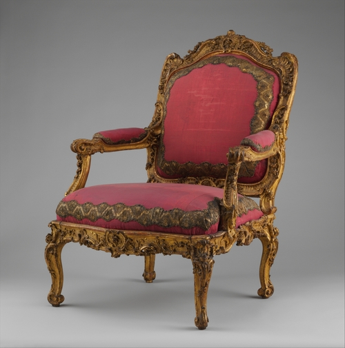 A Louis XV armchair by Nicolas-Quinibert Foliot (1706-1776). Carved and gilded oak. Supplied to Élisabeth de France (1727-1759), Madame Infante, Duchesse de Parme, for the castle of Colorno near Parma (Duchy of Parma,Italy)